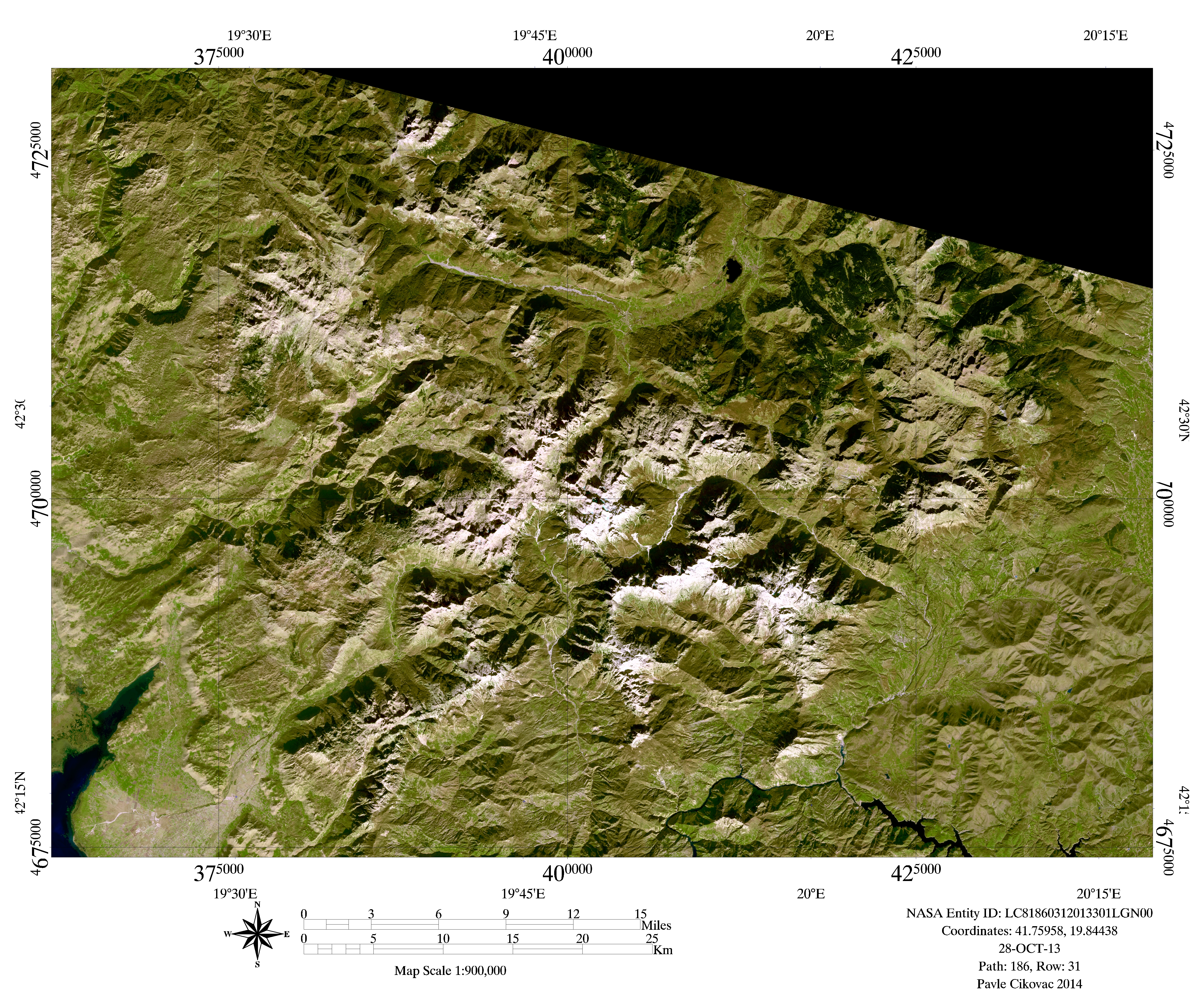 28 Oct 2013 Landsat 8 Image, 15 m resampled, showing late autum Prokletije glaciers